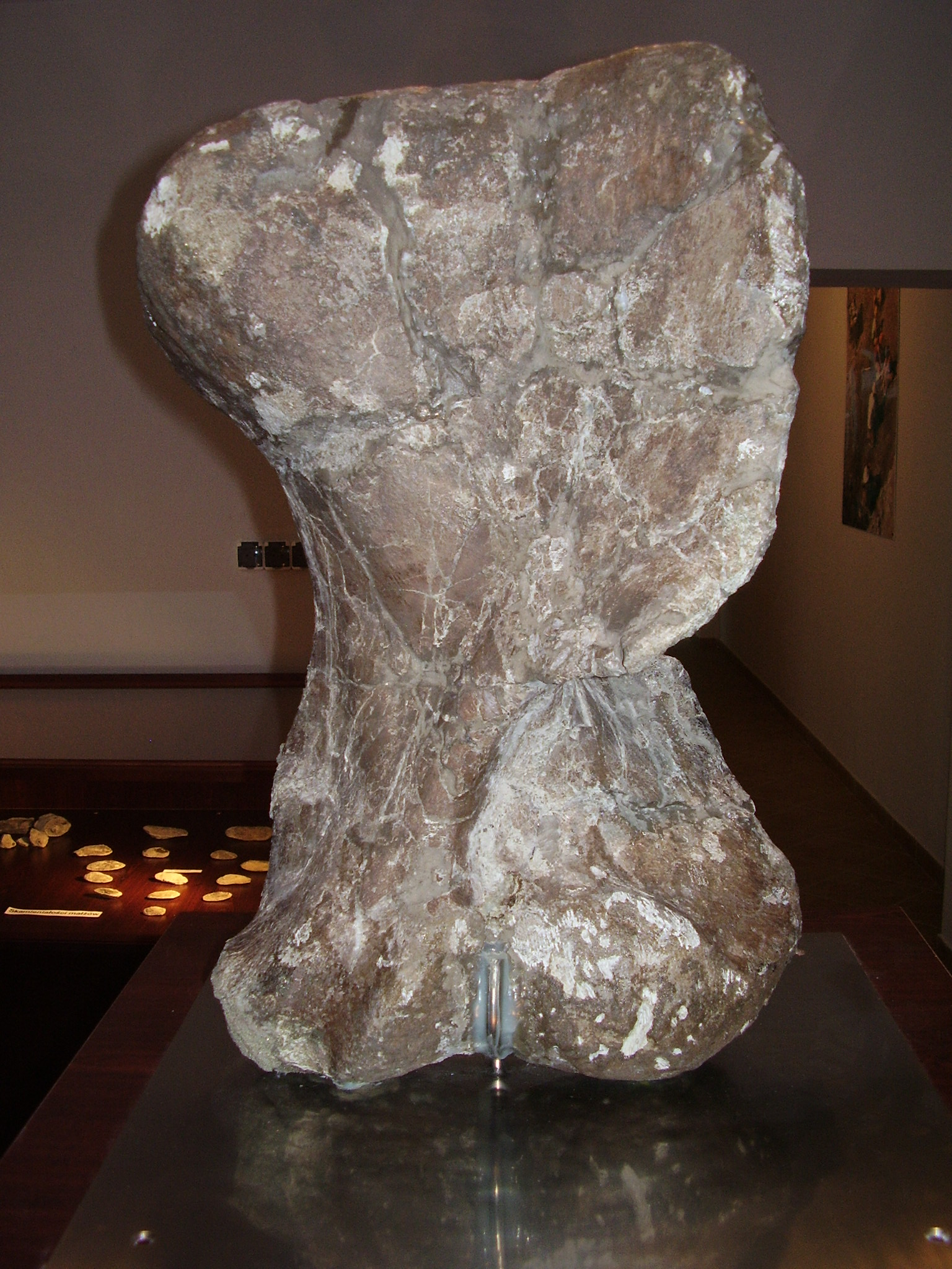 Humerus of a giant triassic dicynodont, found in southern Poland (Lisowice, 2008).